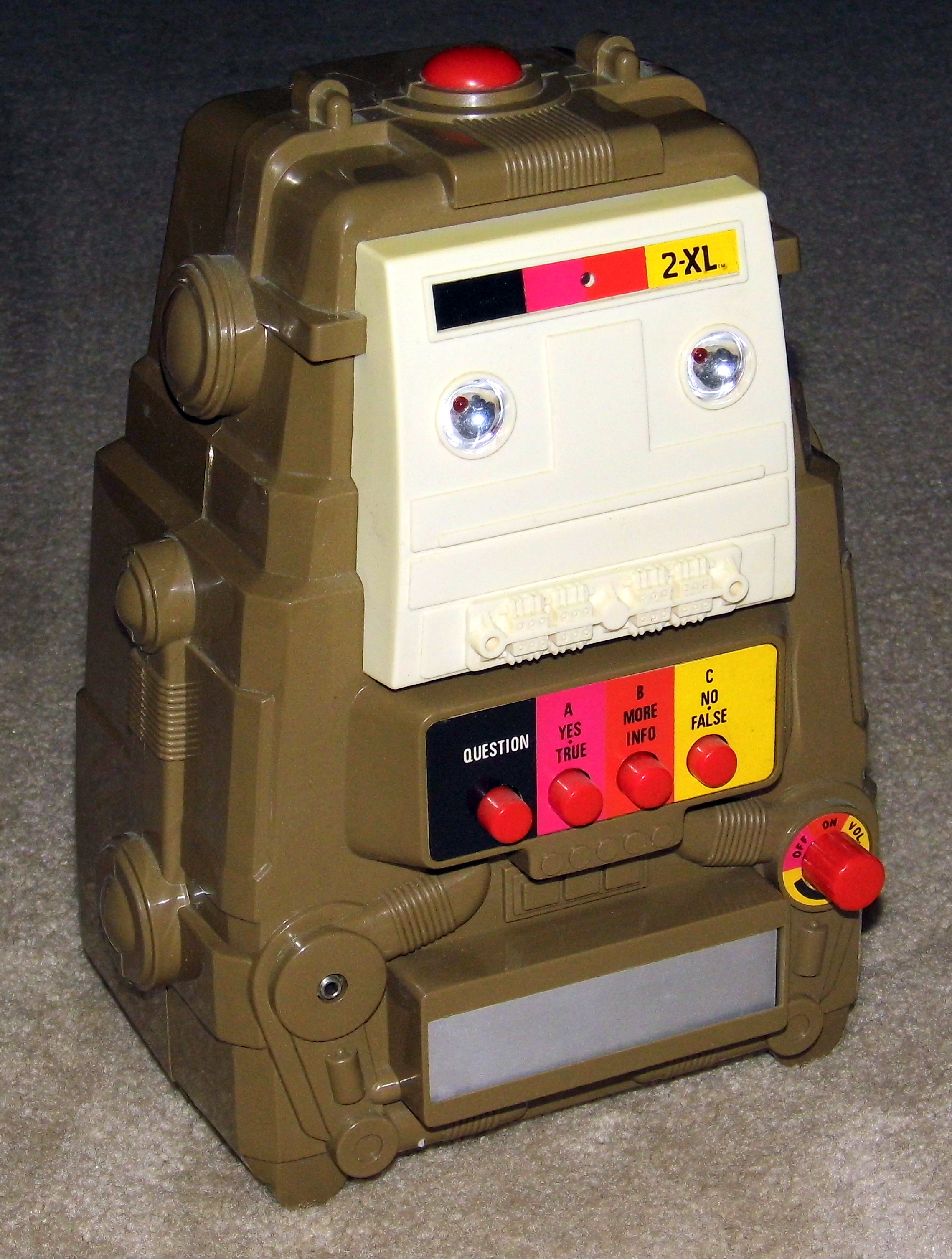 Vintage 2-XL Educational Toy Robot Produced by Mego Corporation, The First Smart Toy, Made in Taiwan, 1978